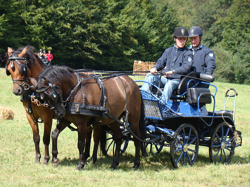 Regional Pony Rally in Rudawka Rymanowska